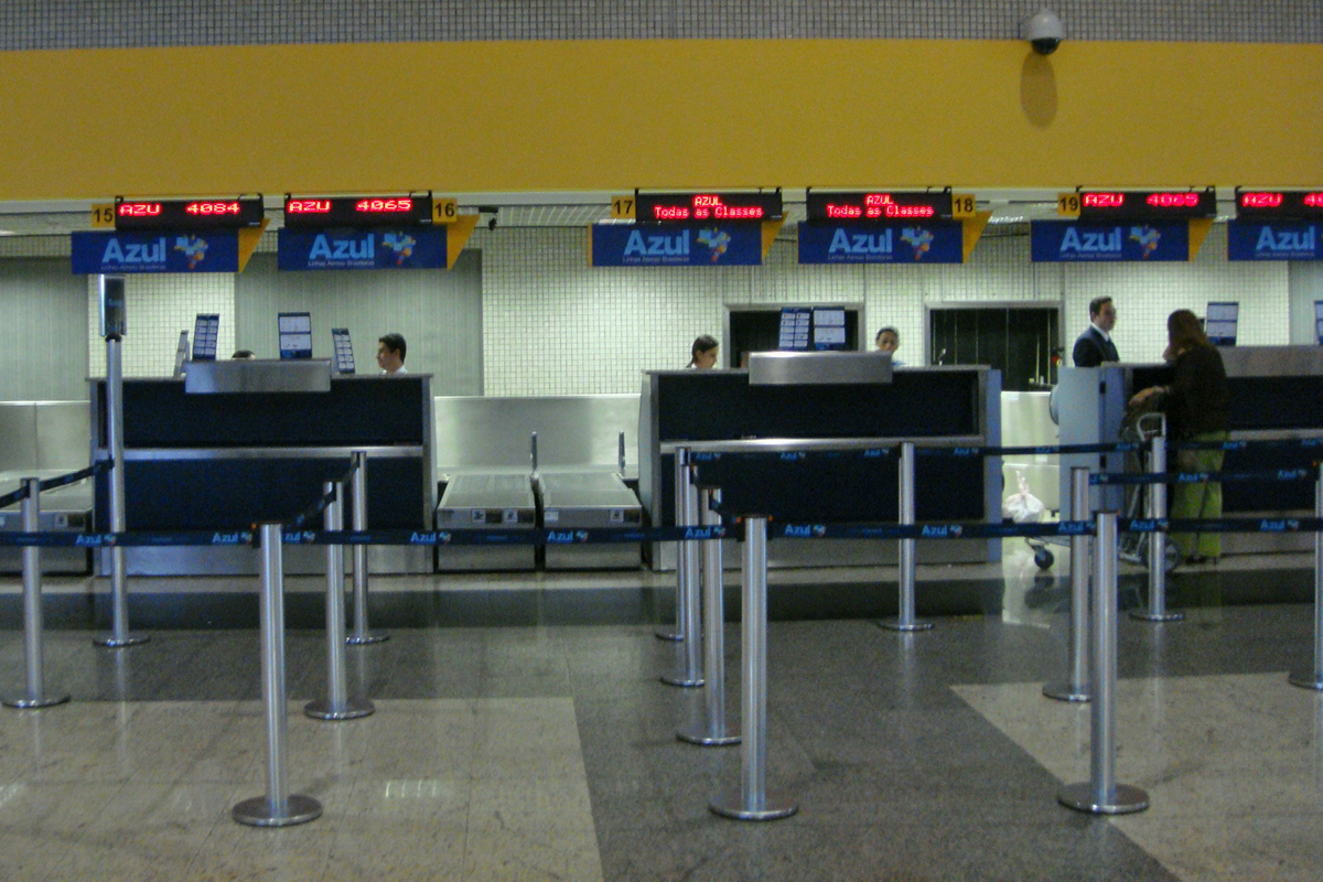 Azul check-in counter at Viracopos International Airport, Campinas, Brazil